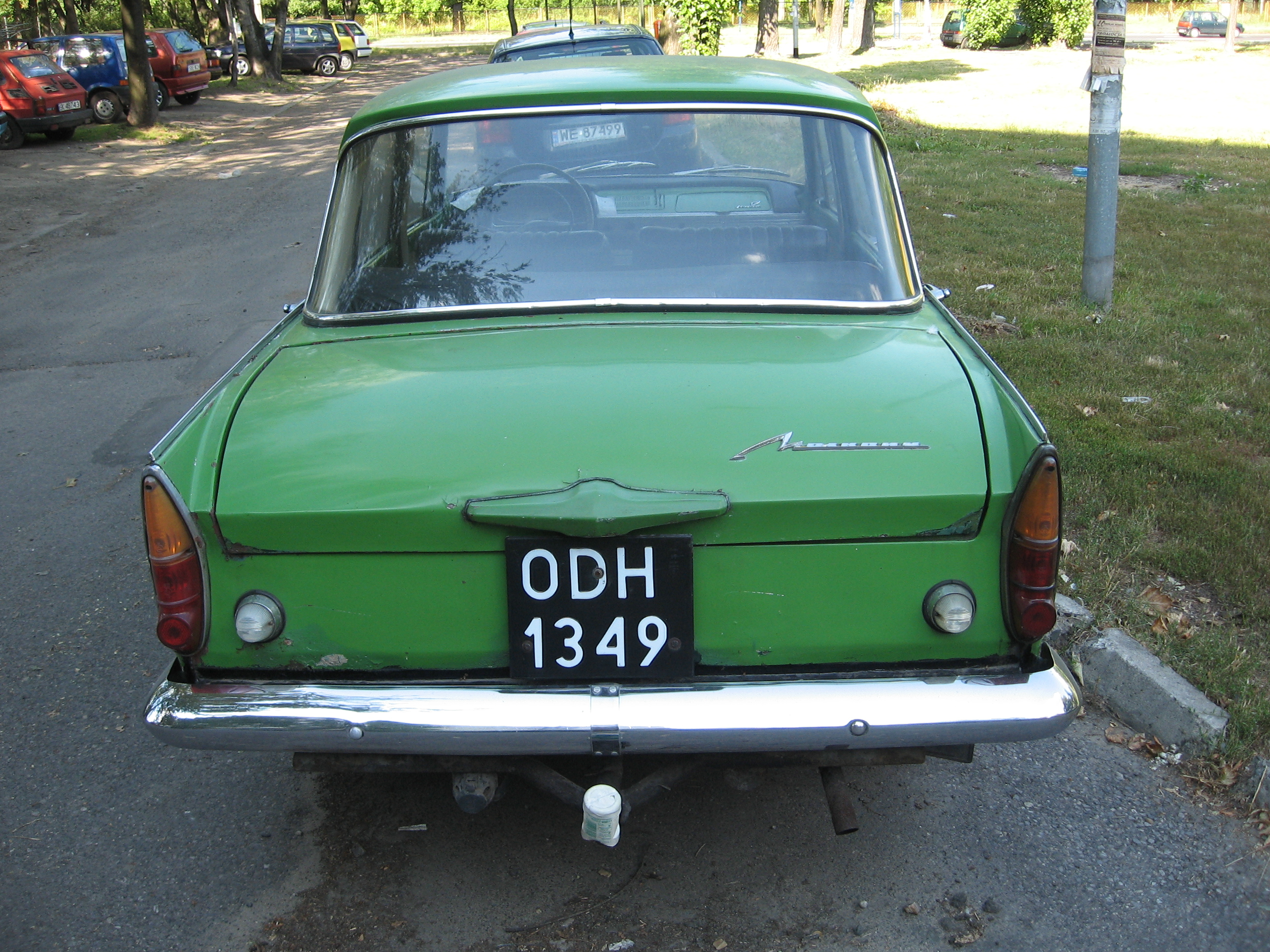 Moskvich (probably 412, as there is no gearbox stick visible)